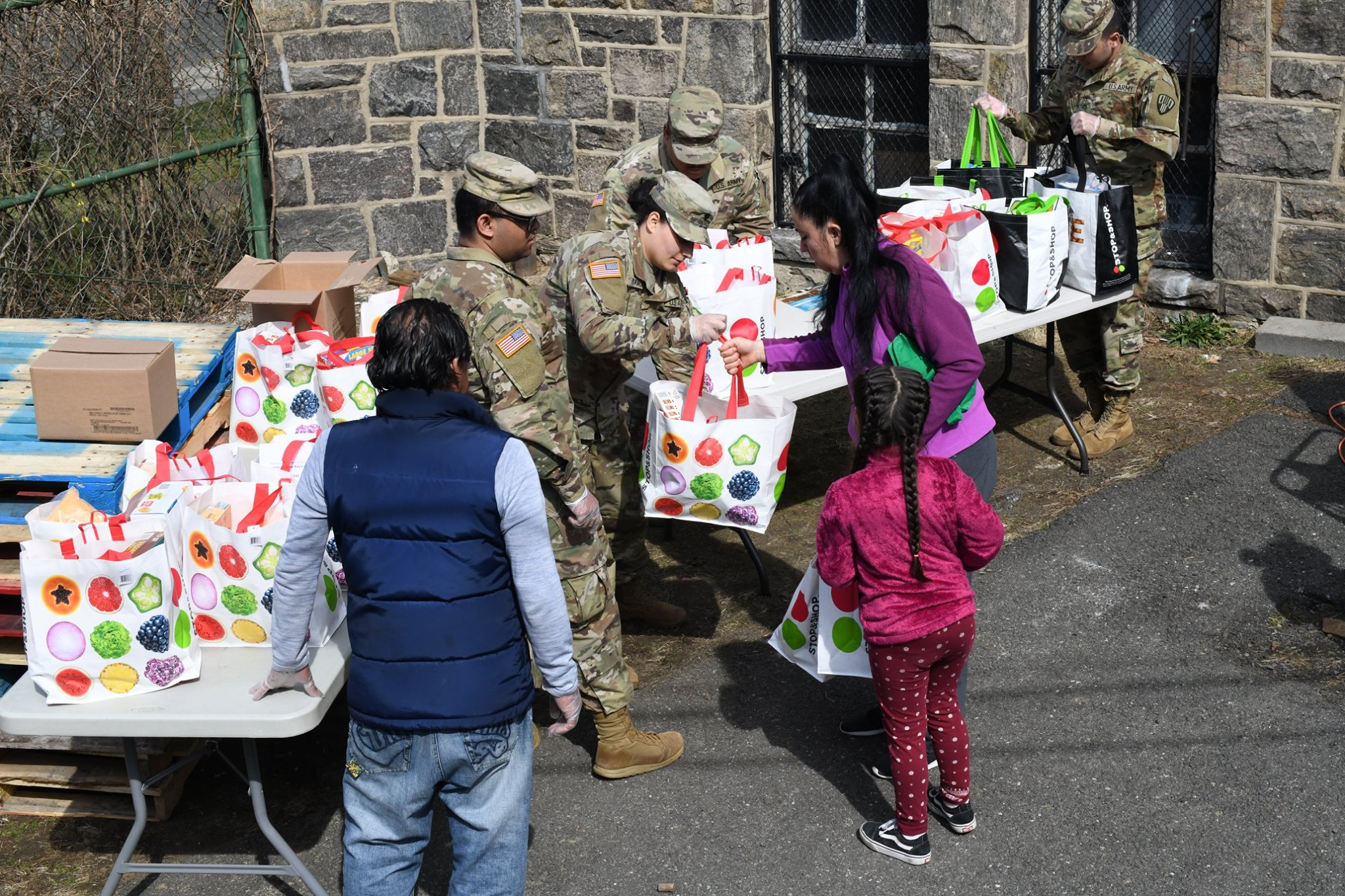 New York National Guard Soldiers from the 101st Signal Battalion hand groceries to members of the community at a food distribution point at Hope Community Services in New Rochelle on March 18, 2020. (Photo by Maj. Patrick Cordova)